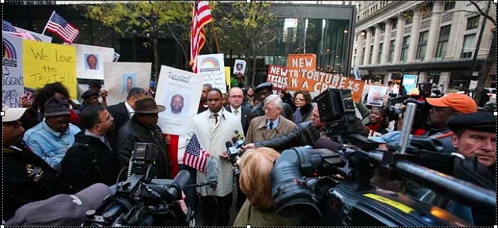 Jonathan Jackson (center left) stands with Atty. G. Flynt Taylor (center right )during a press conference on torture and wrongful convictions outside the Chicago federal courthouse where former Chicago Police Department Lt. Cmdr. Jon Burge was indicted in 2008. Burge was later convicted of torturing suspects in his custody.